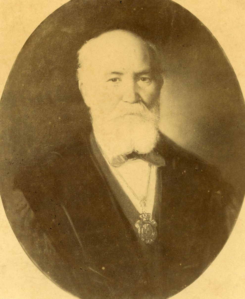 Cuadro de Francisco Freire Barreiro